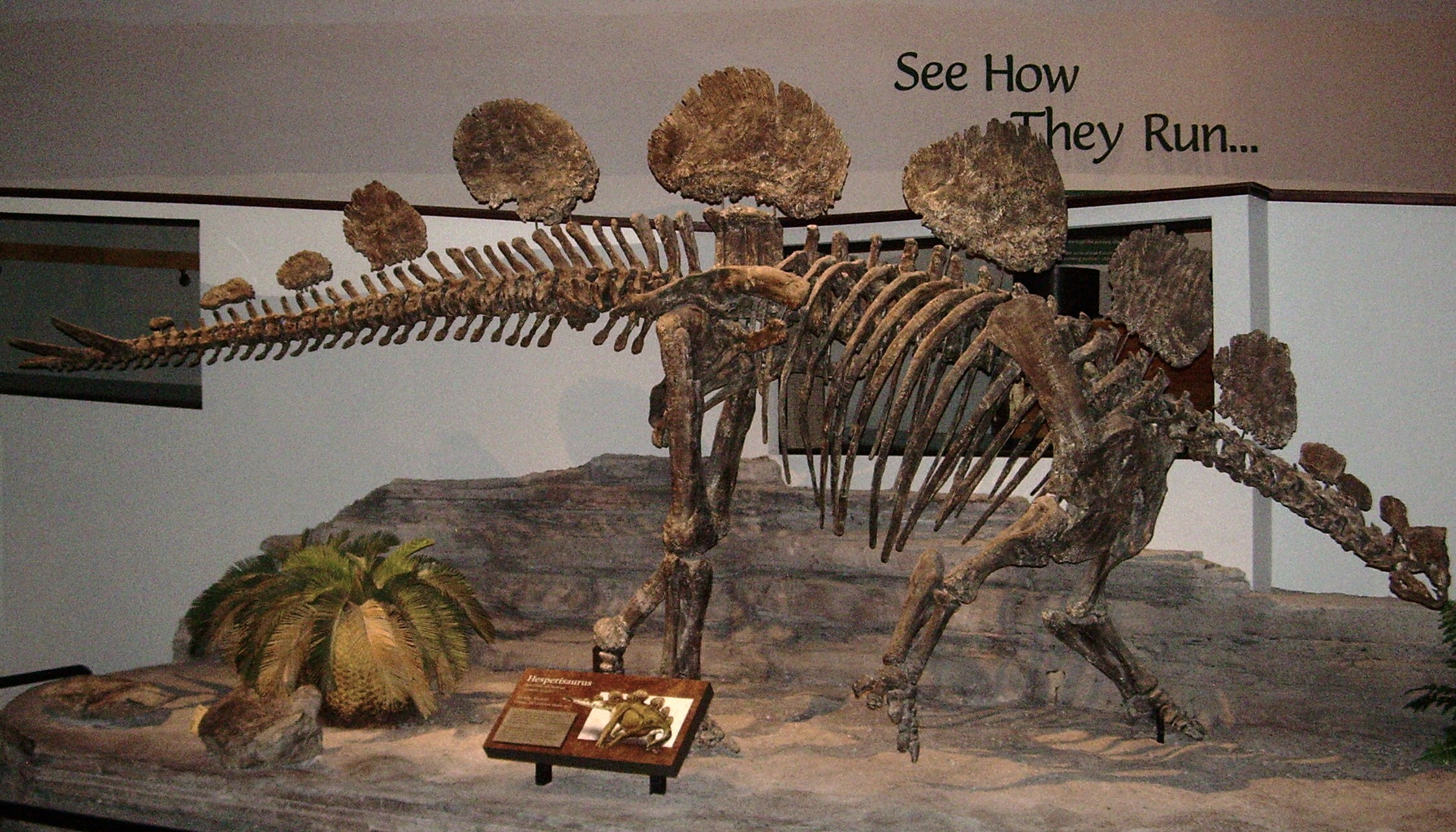 Photograph of a fossil cast of a Hesperosaurus mjosi skeleton taken at the North American Museum of Ancient Life.